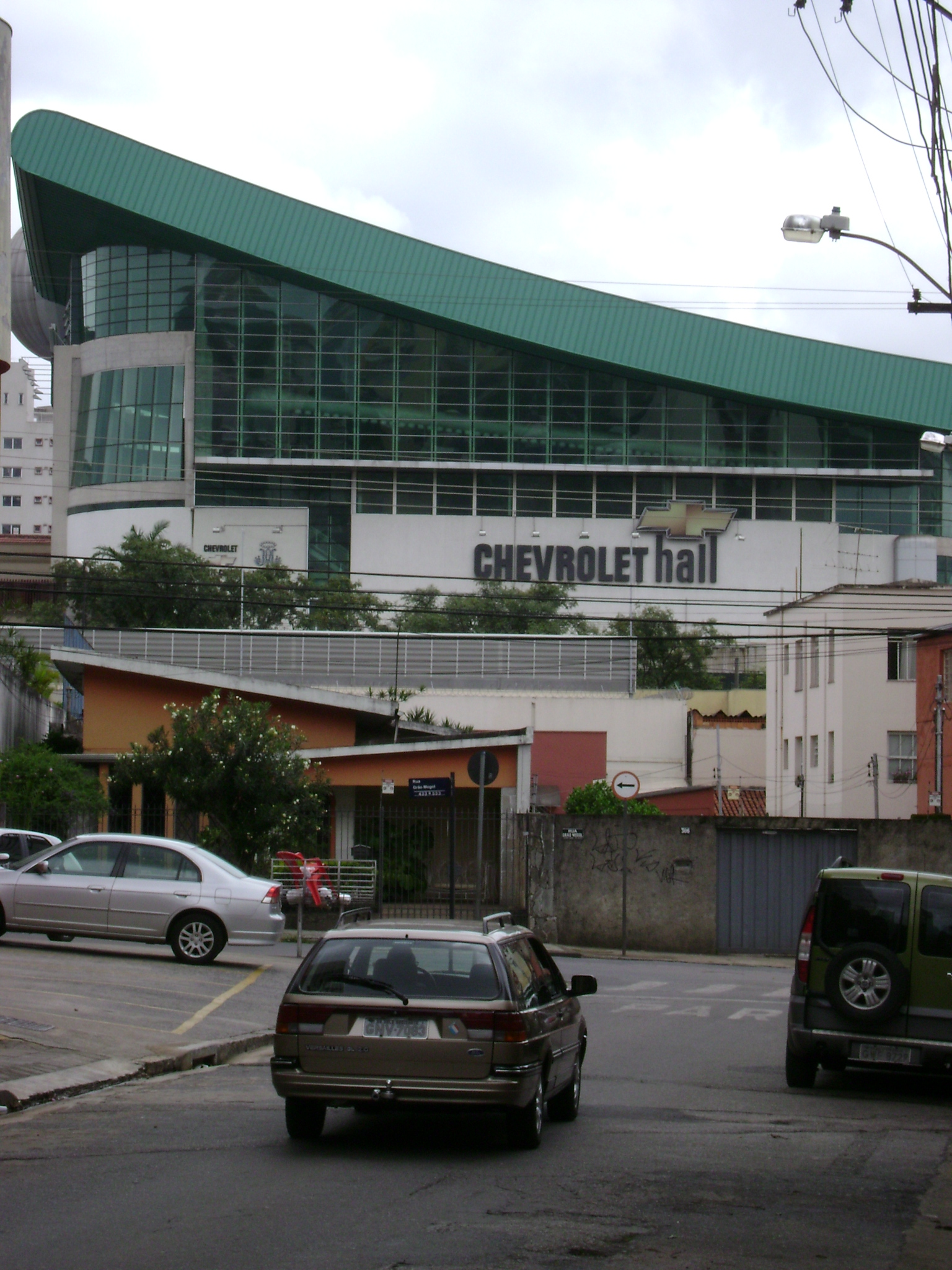 Marista Hall (Chevrolet Hall)